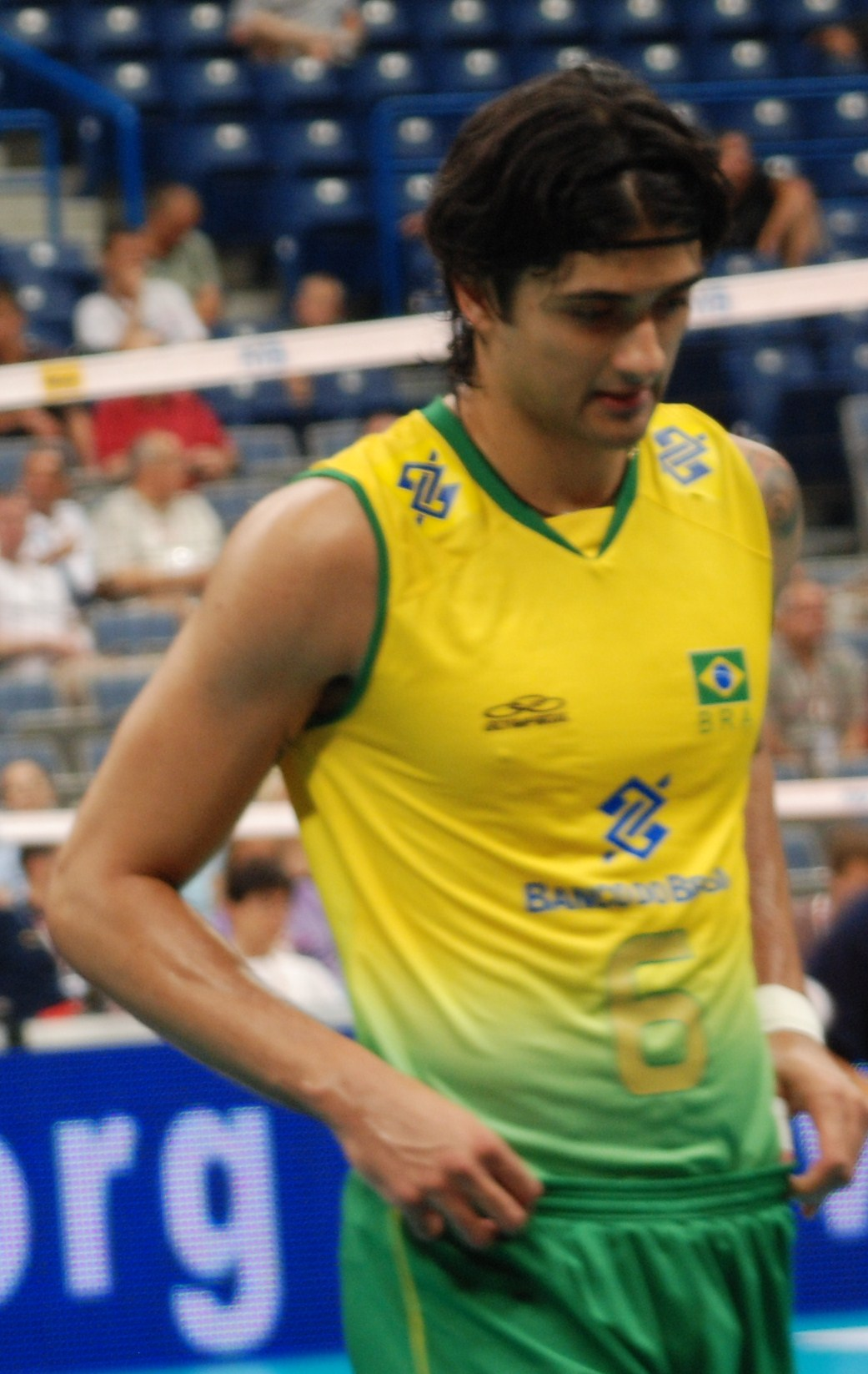 Brazilian volleyball player Leandro Vissotto Neves